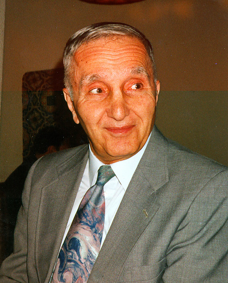 Sam C. Sarkesian in 1997